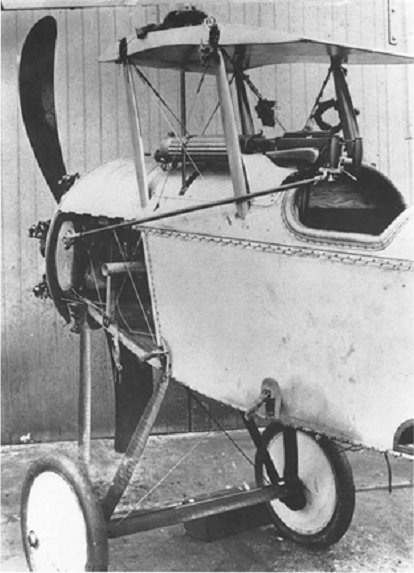 Mounting of synchronised Vickers gun on Bristol Scout